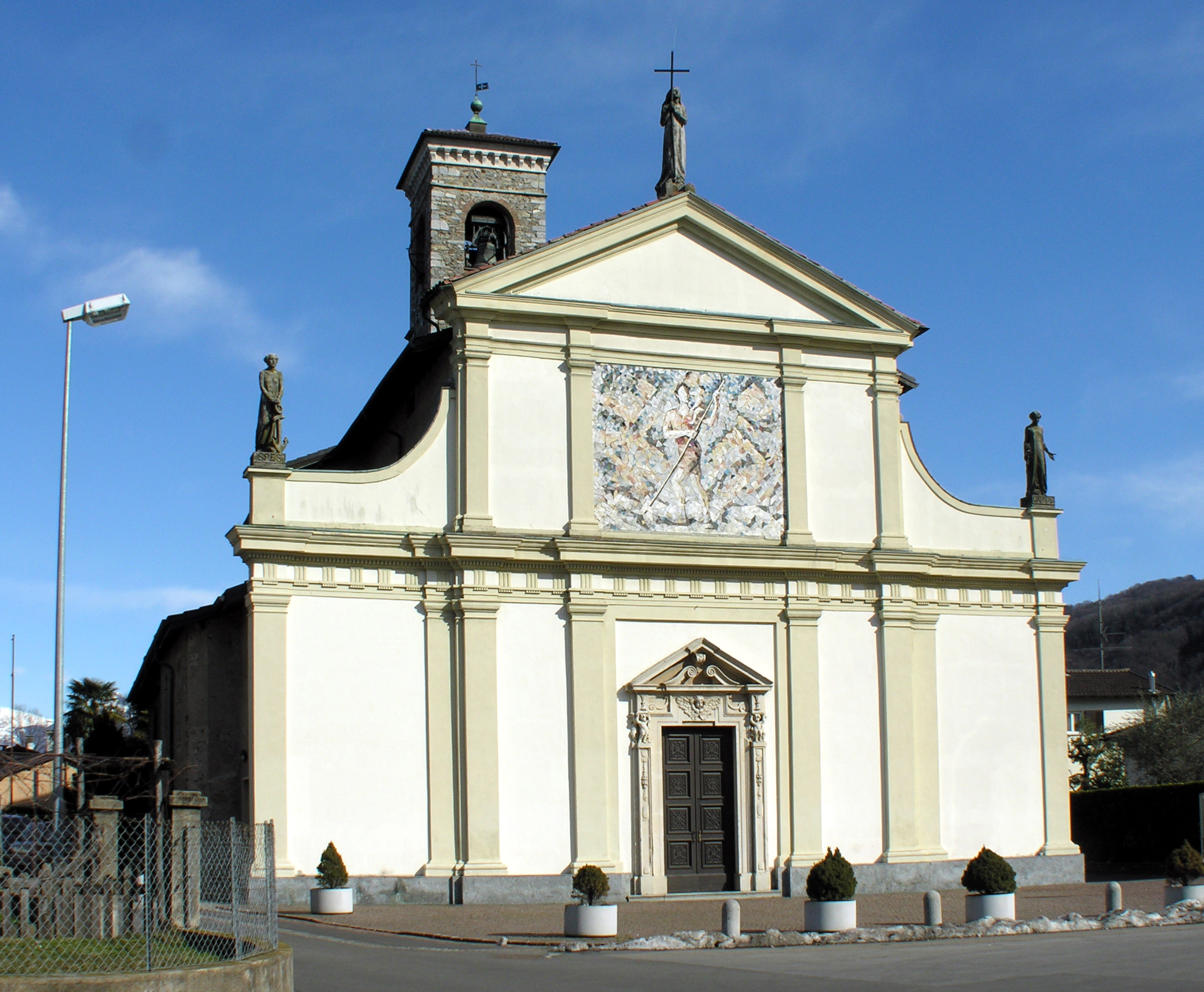 Caslano, Tessin, Switzerland - The St. Cristoforo church